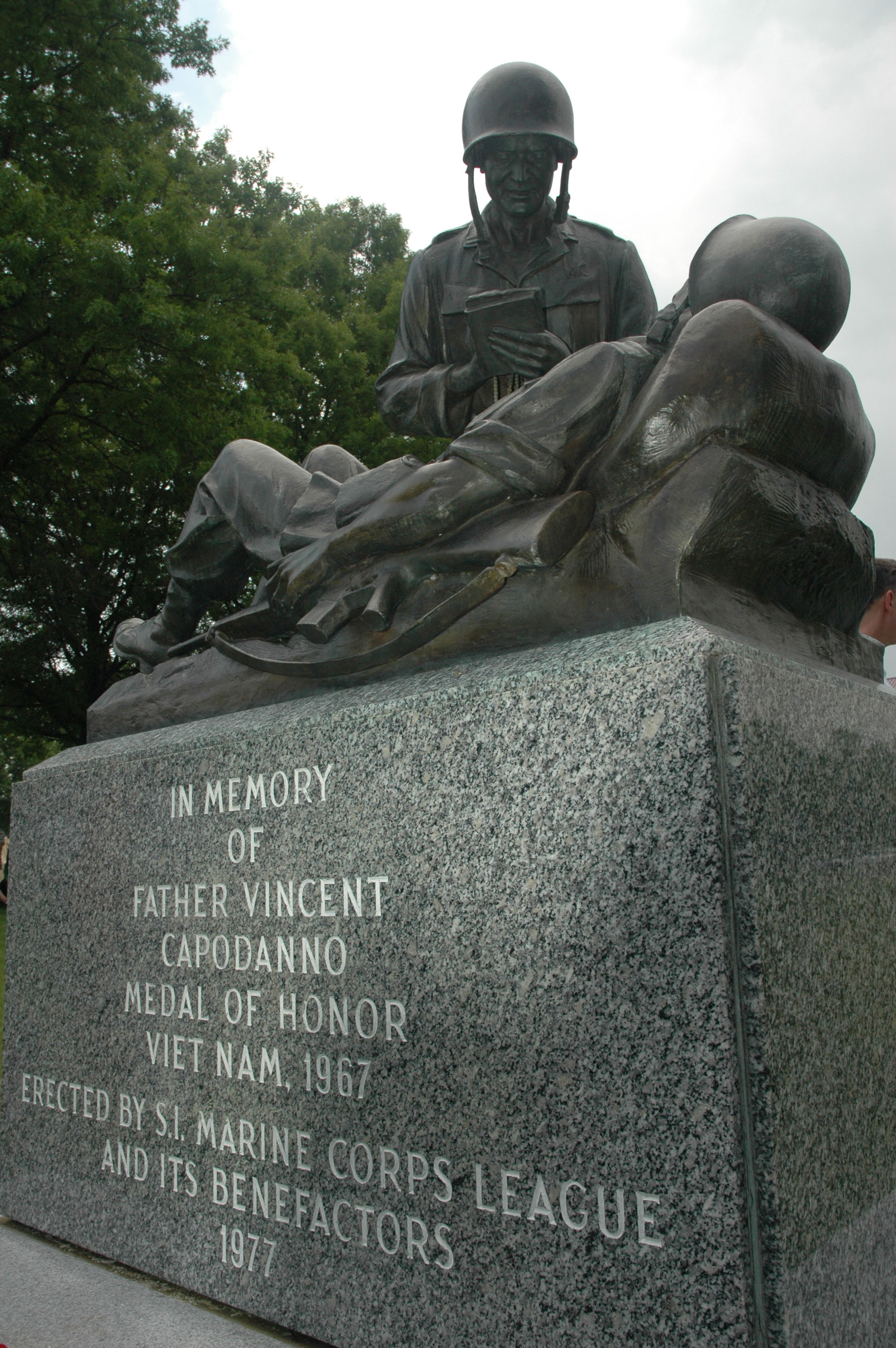 The Monument that stands just outside Father Capodanno Memorial Chapel, Fort Wadsworth, Staten Island, NY in memory of the Navy Chaplain who grew up there on the Island.